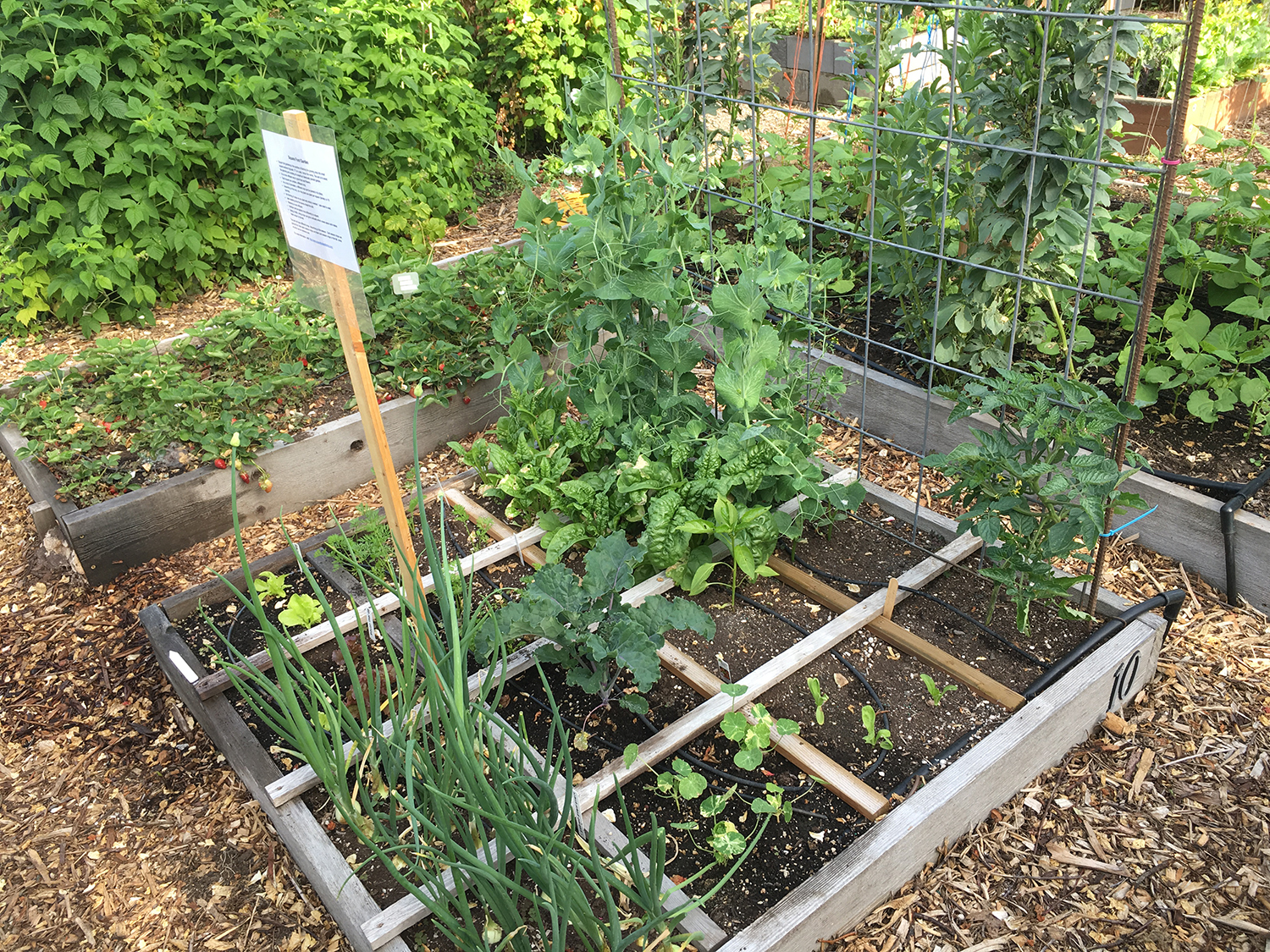 Raised beds are most often made of wood. Be sure to avoid lumber treated with chemicals. Photo by Brooke Edmunds.